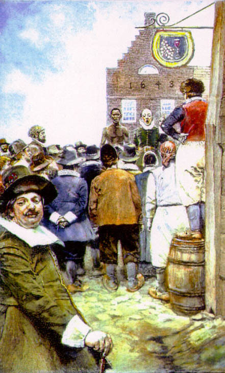 The first slave auction in New Amsterdam in 1655. By Howard Pyle 1917.